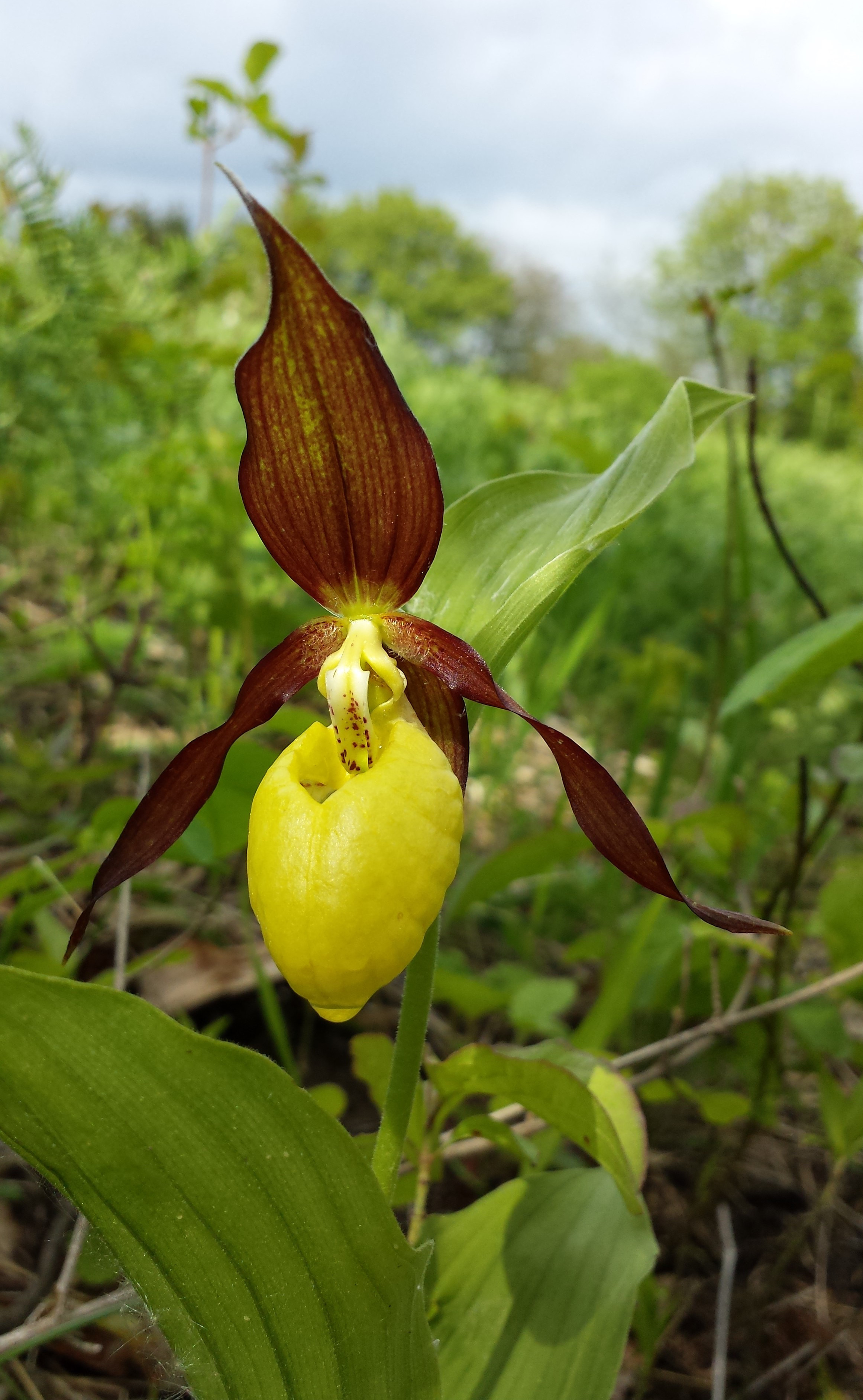 Taxon: Cypripedium calceolus Location: Rohrwald, district Korneuburg, Lower Austria Habitat: border of a shrubbery Identified according to: Fischer et. al. ExFlora Austria etc. 2008